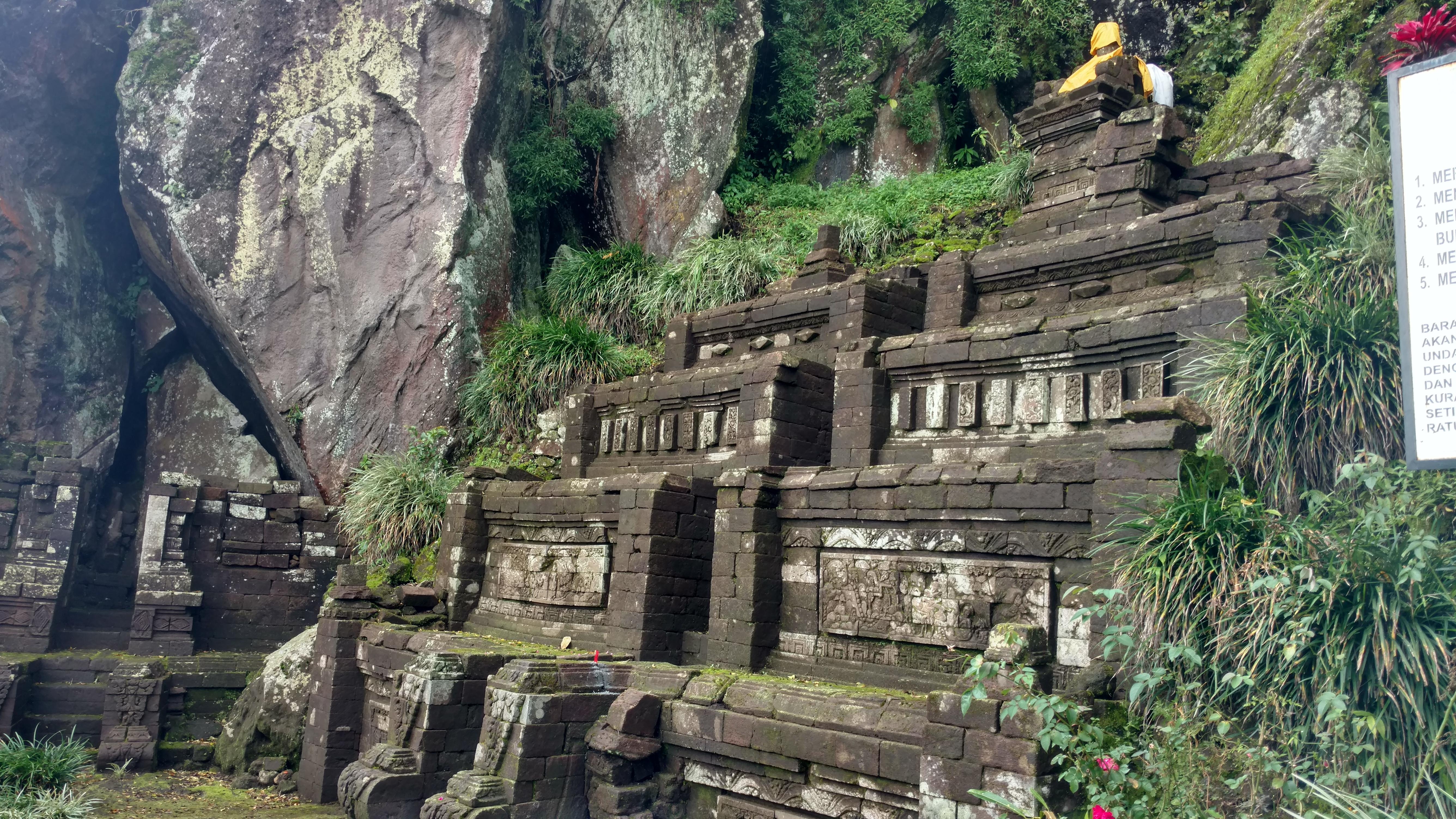 2017-02-19 Hike around gunung Bekel 19